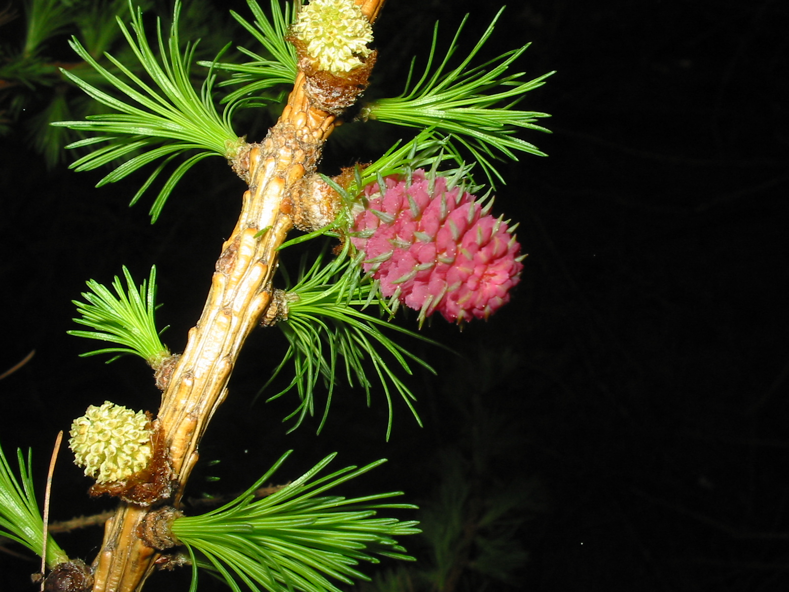 European Larch: Young female and male cones